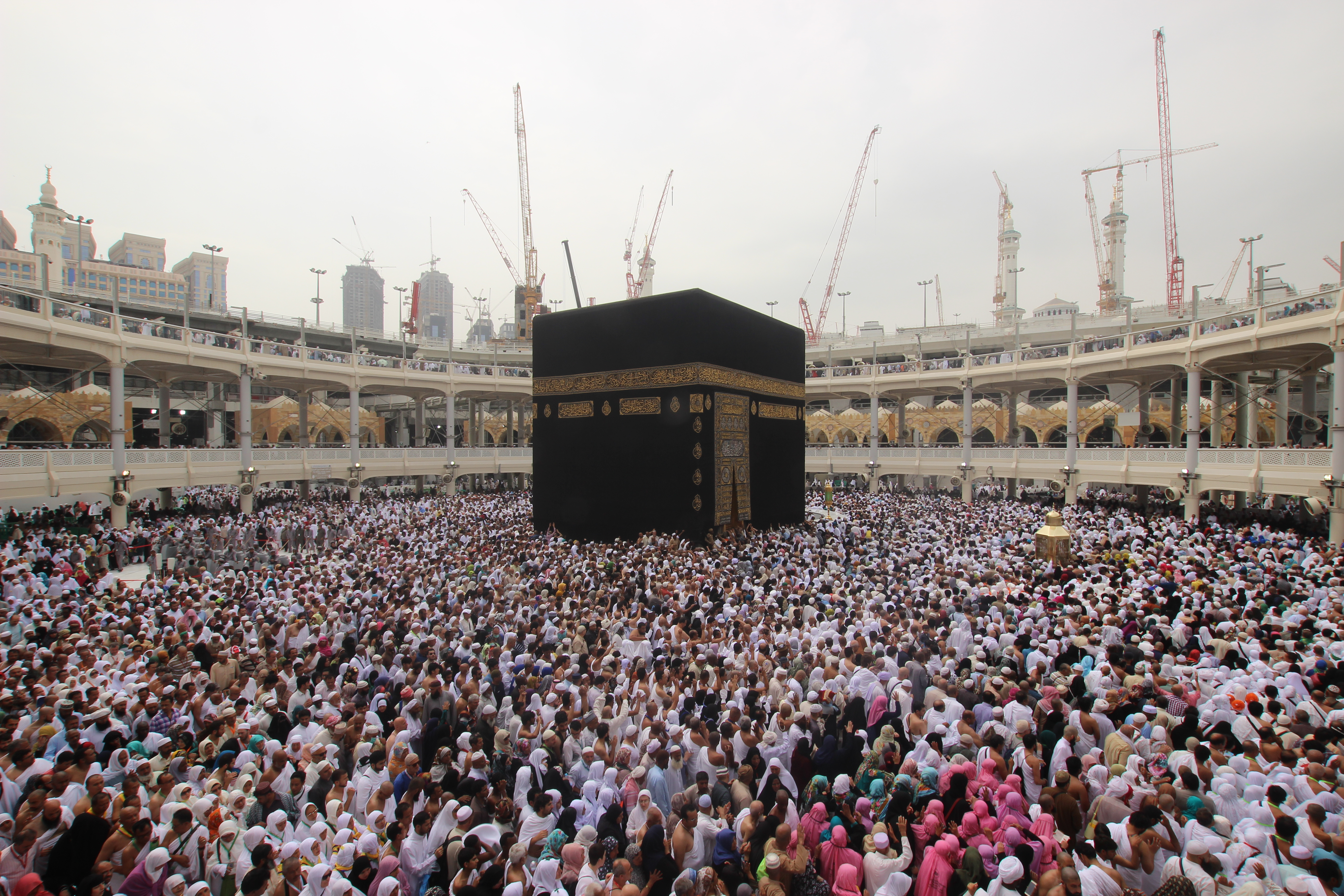 Kaaba, Makkah